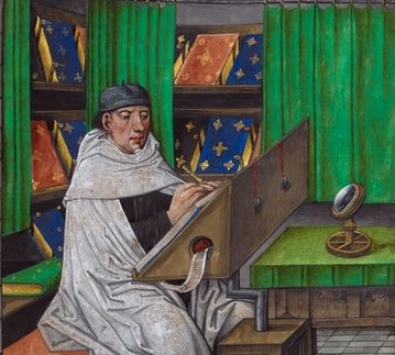 A detail from File:BL Royal Vincent of Beauvais.jpg, Miroir historial, vol. 1 Vincent of Beauvais, Speculum historiale, trans. into French by Jean de Vignay), Bruges, c. 1478-1480, Royal 14 E. i, vol. 1, f. 3